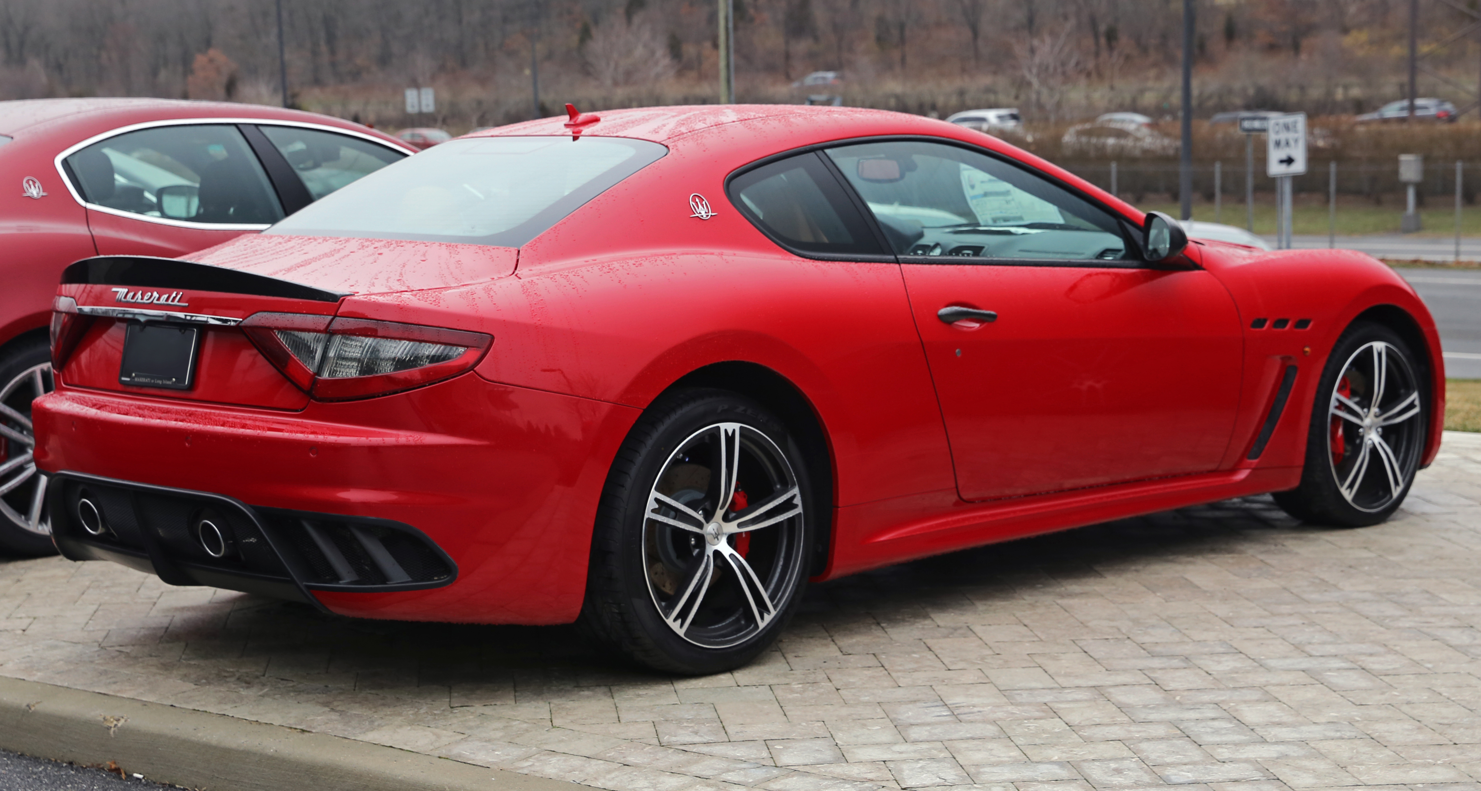 A 2015 Maserati GranTurismo MC (US cars do not carry the "Stradale" moniker, as they don't have the awesome sequential transmission other markets receive). Six-speed automatic transmission.